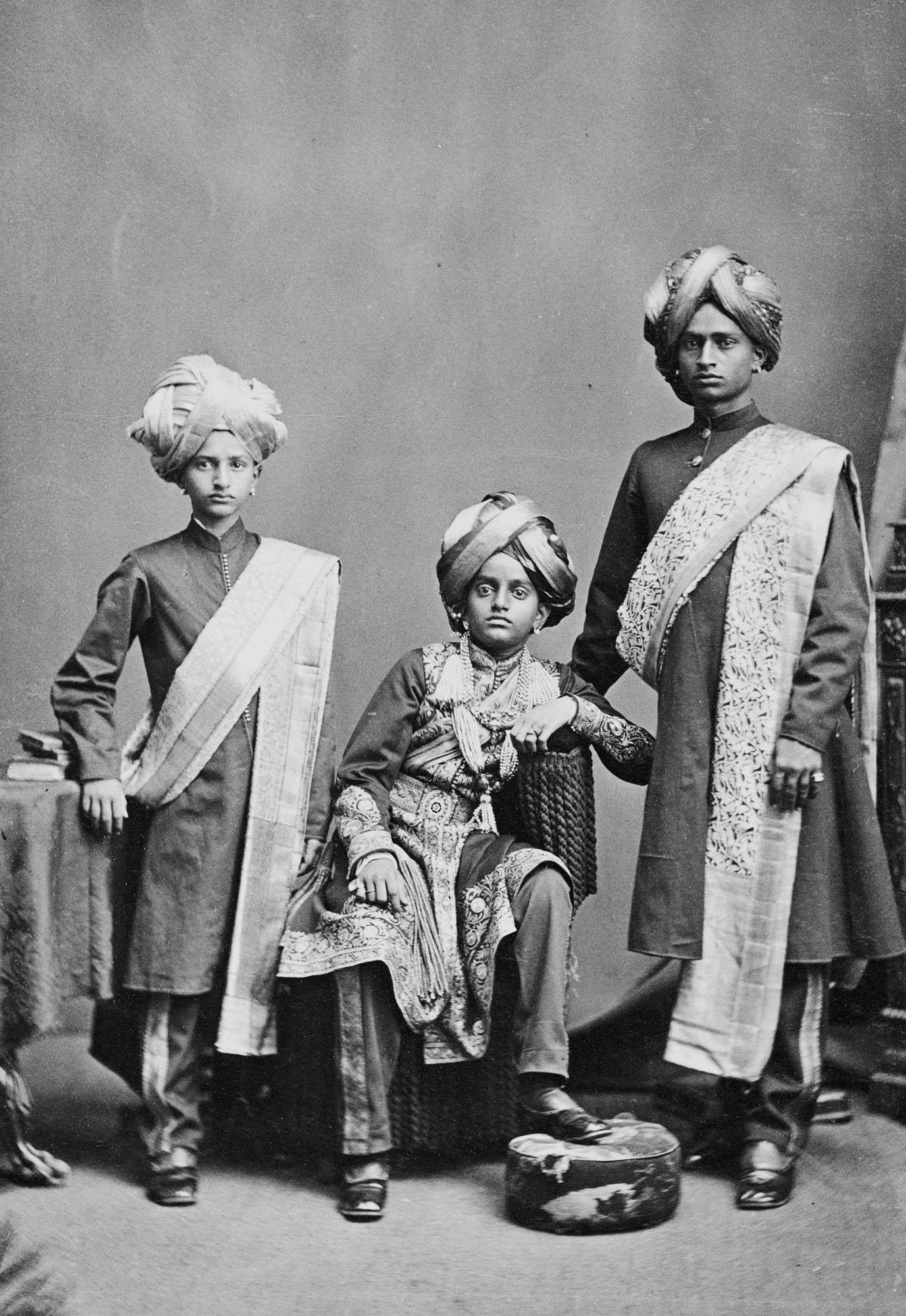 Photograph of Chamarajendra Wadiyar X, the Maharajah of Mysore and two Princes in a full length portrait. The Maharajah is sitting in a chair.